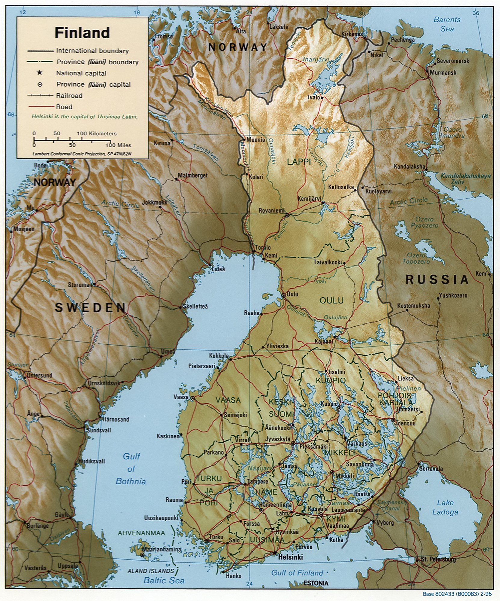 Map of Finland, relief shown by shading.Scale [ca. 1:6,250,000]; Lambert conformal conic proj. (E 180--E 340/N 720--N 590); map 20 x 17 cm; "Base 802433 (B00083) 2-96."